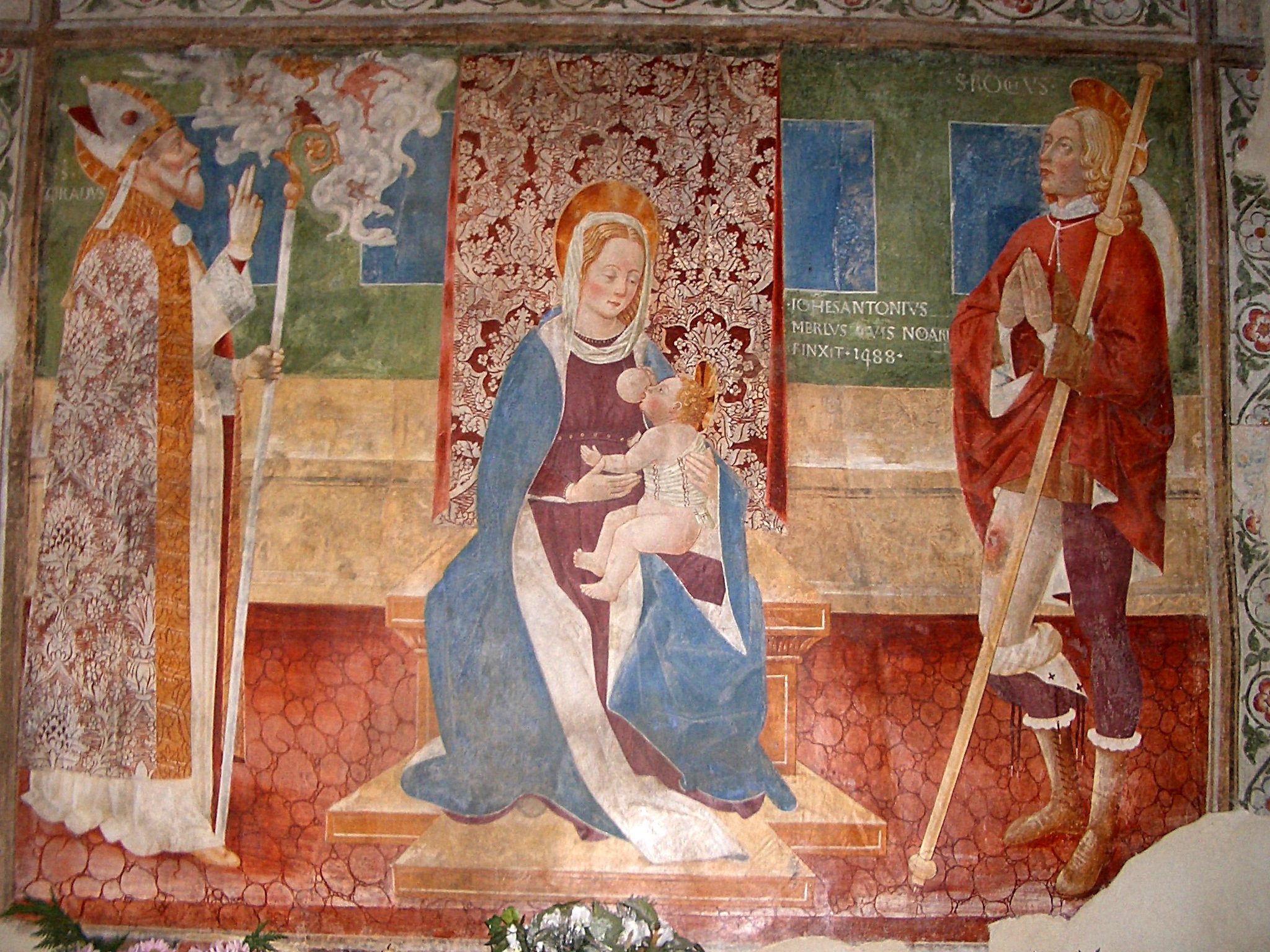 Giovanni Antonio Merli, Madonna and Child with the saints Grato and Roch, fresco, 1488, Paruzzaro, San Marcello Church